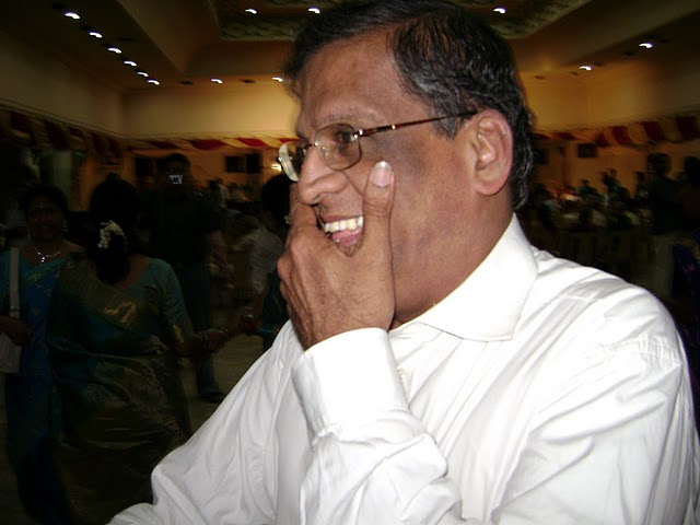 This photo is taken by me